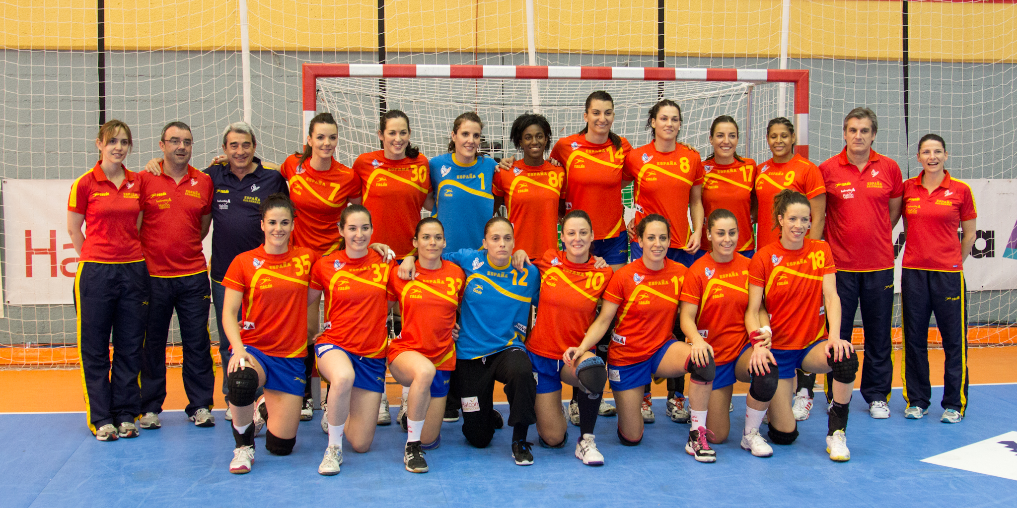 Spain women's national handball team at the Handball All Star Game 2013, held in San Sebastián de los Reyes, Madrid, Spain.